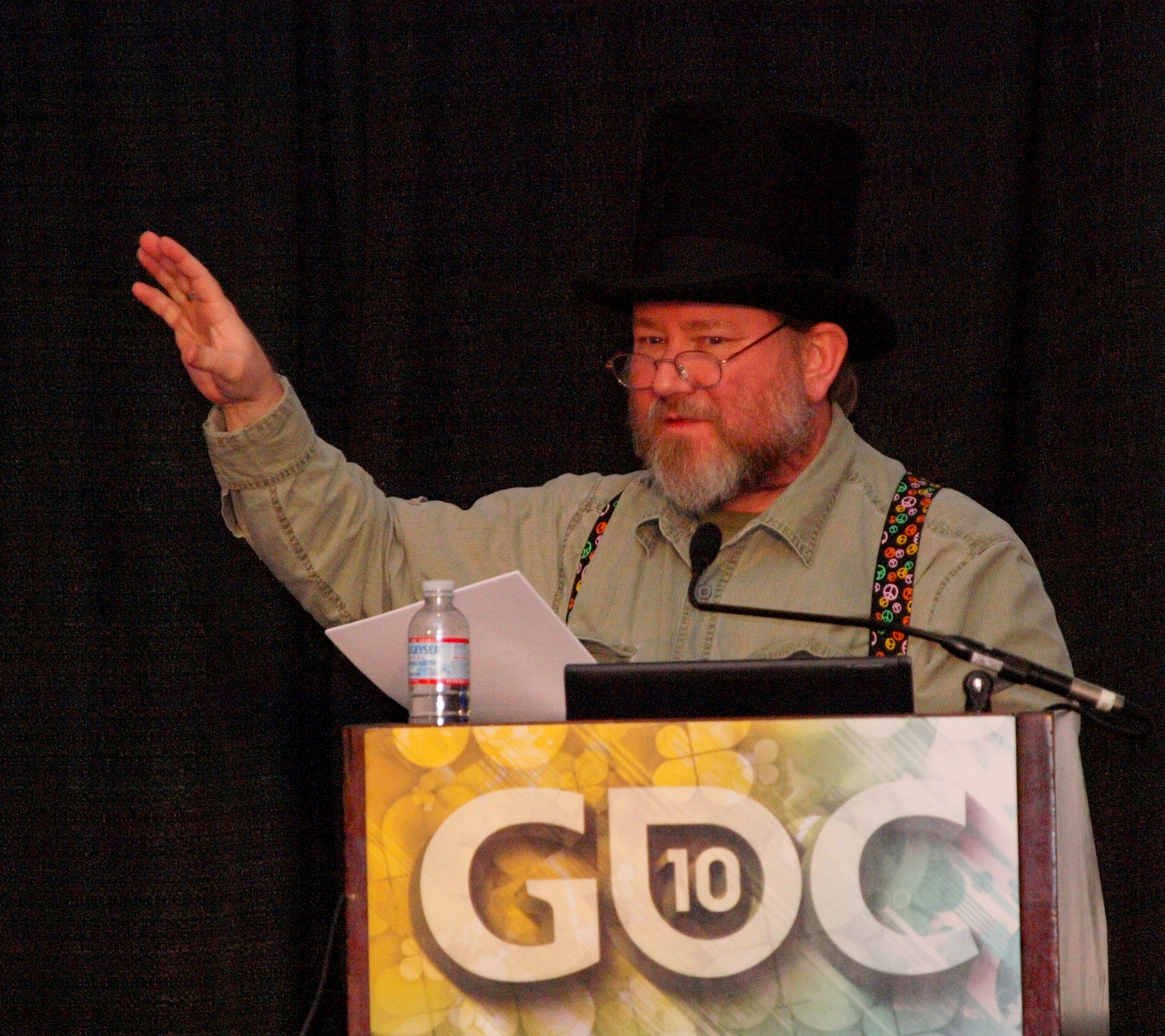 Ernest Adams at the Game Developers Conference 2010.